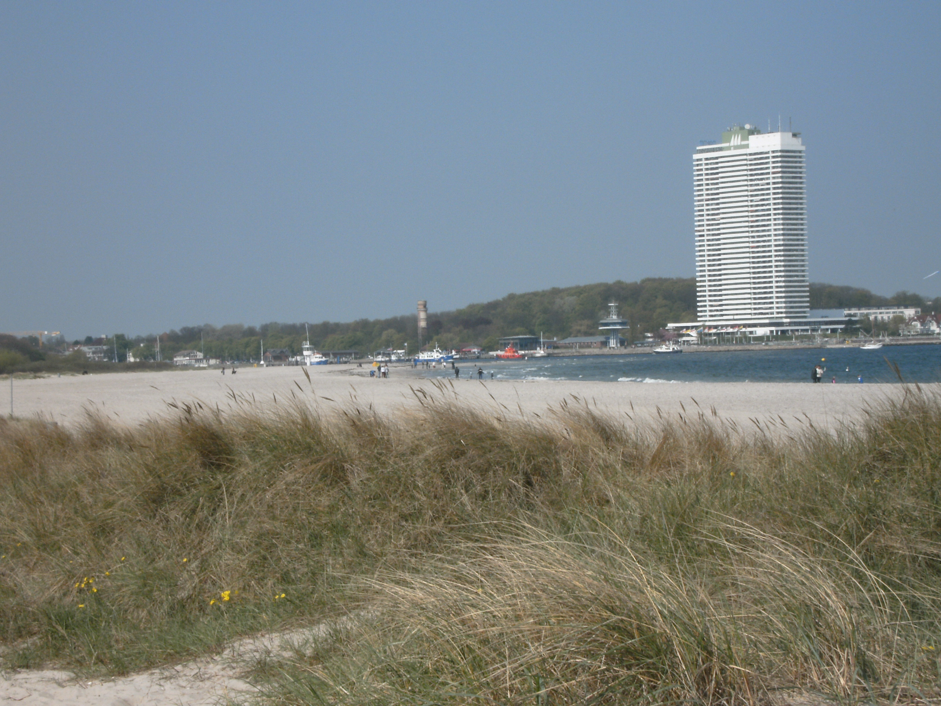 Beach grass and sandy beach at the shore of Baltic Sea at Priwall of Travemünde, Germany. Maritim tower in background.